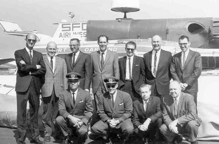 AAHSandhovercft